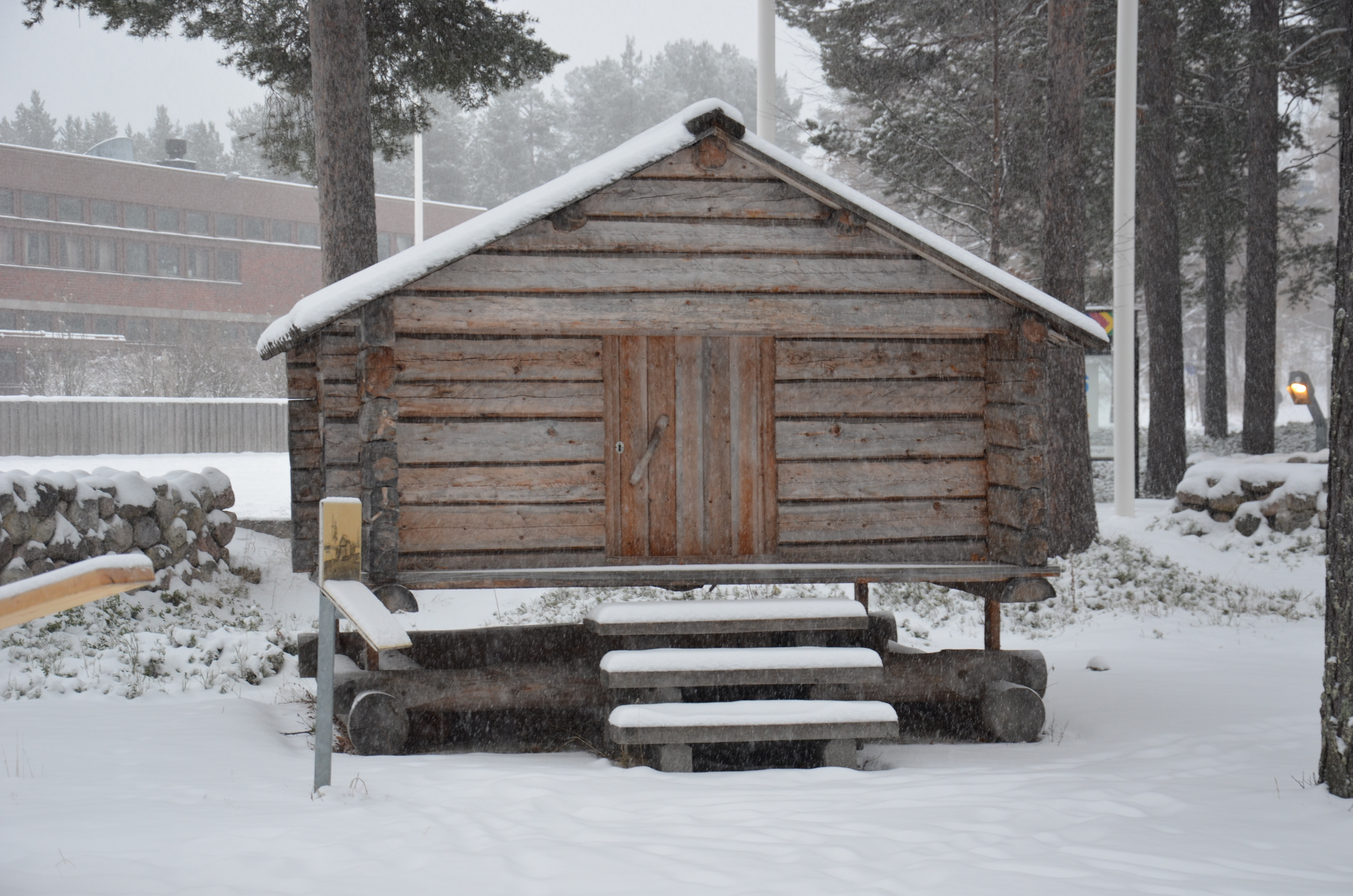 Förrådsbod Ajtte på Ajtte, Svenskt fjäll- och samemuseum i Jokkmokk